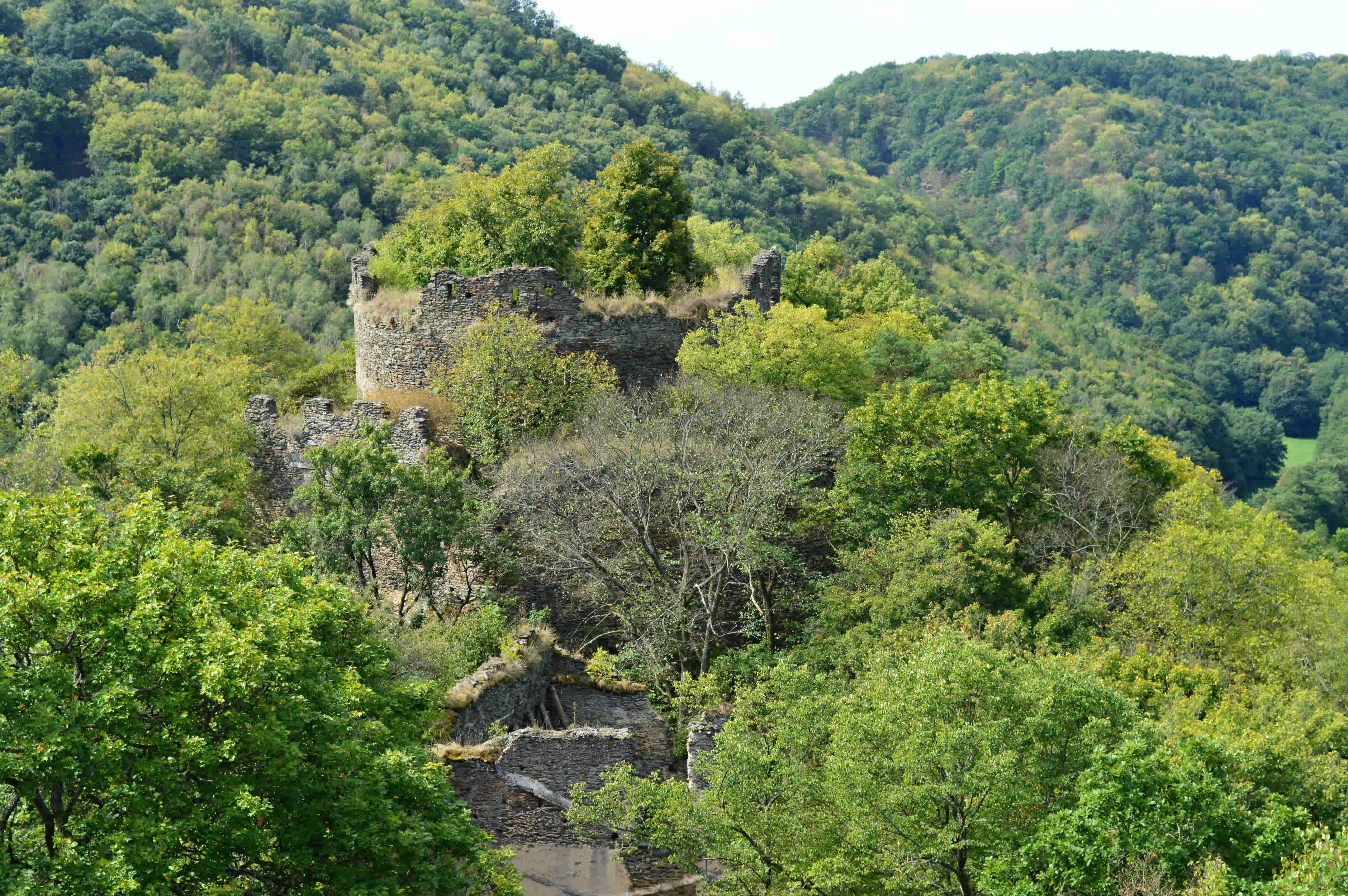 The older part of The Nový Hrádek Castle (fotrtification).